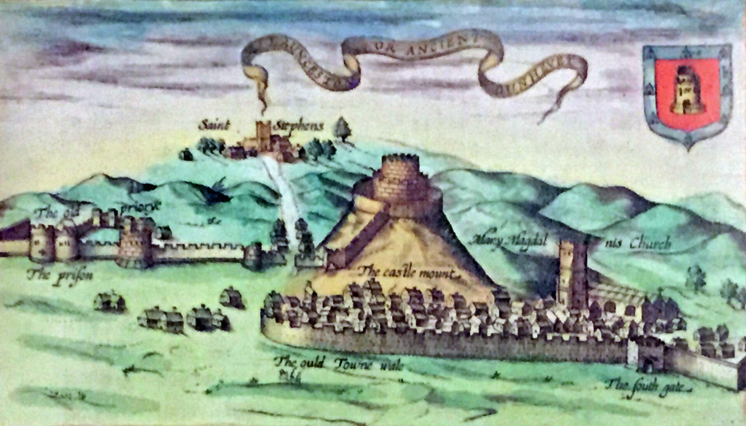 Launceston Castle, depicted by John Speed